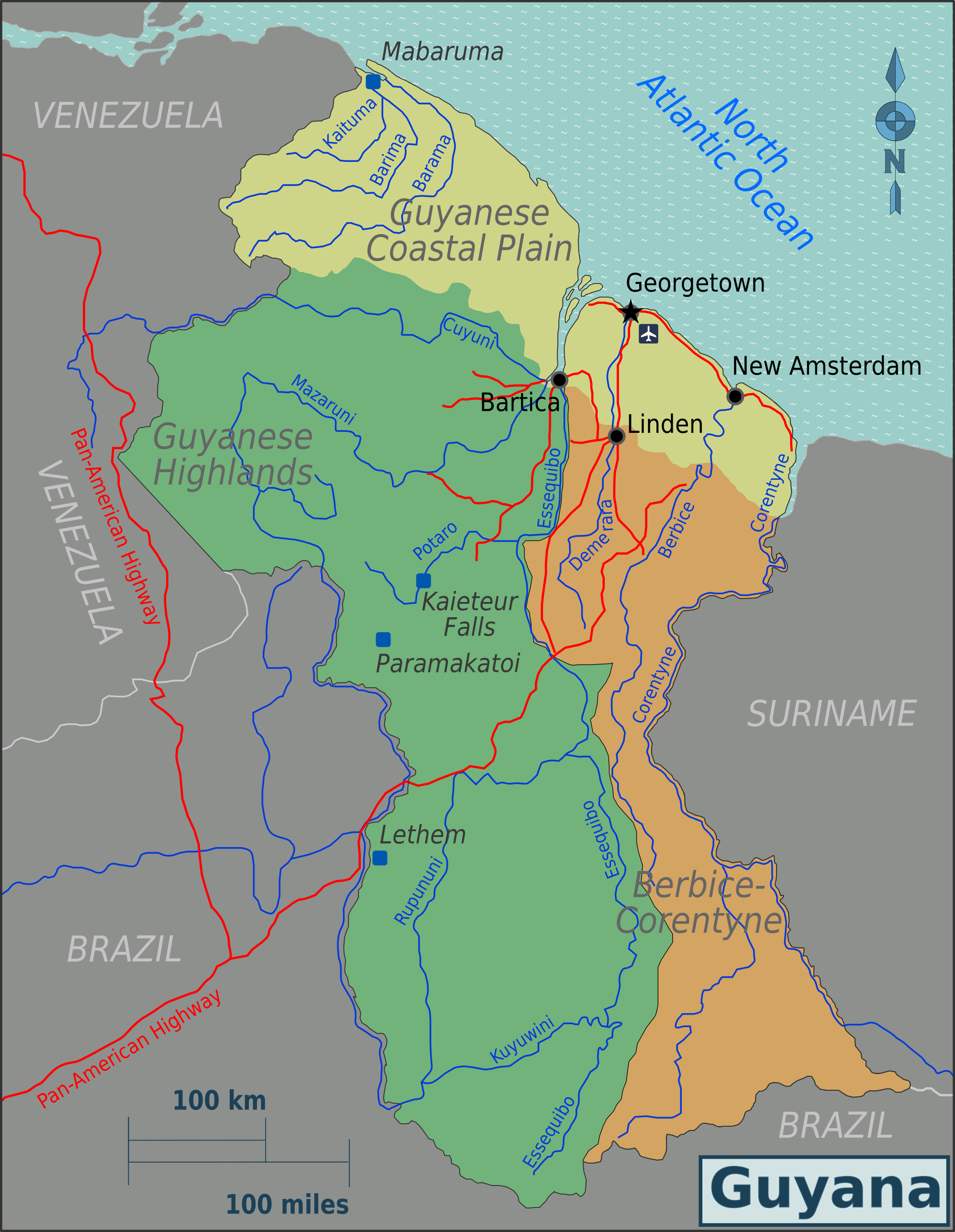 Map of Guyana for use on Wikivoyage, English version